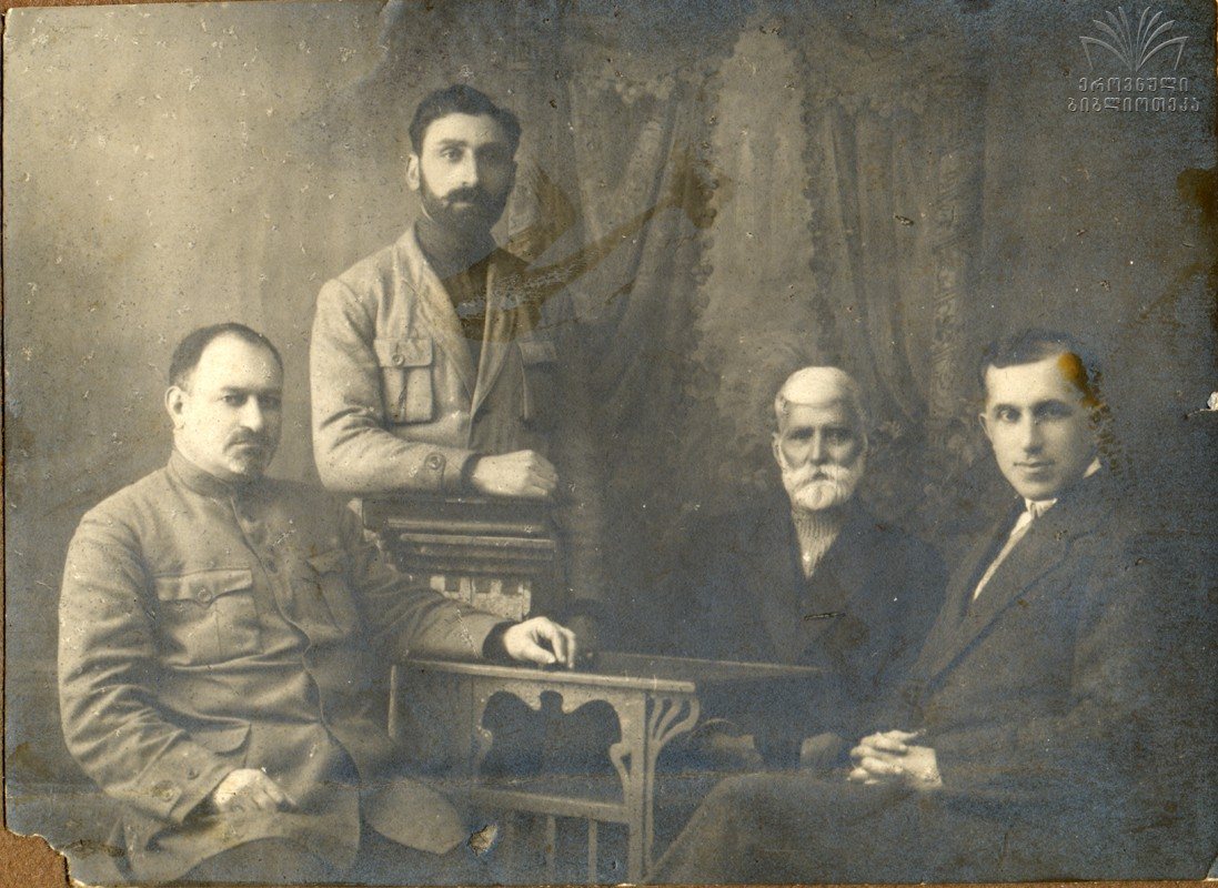 Vladimer Akhmetelashvili (Akhmeteli), Giorgi Akhmetelashvili, Isidore Ramishvili and Evgeni (Geno) Urushadze